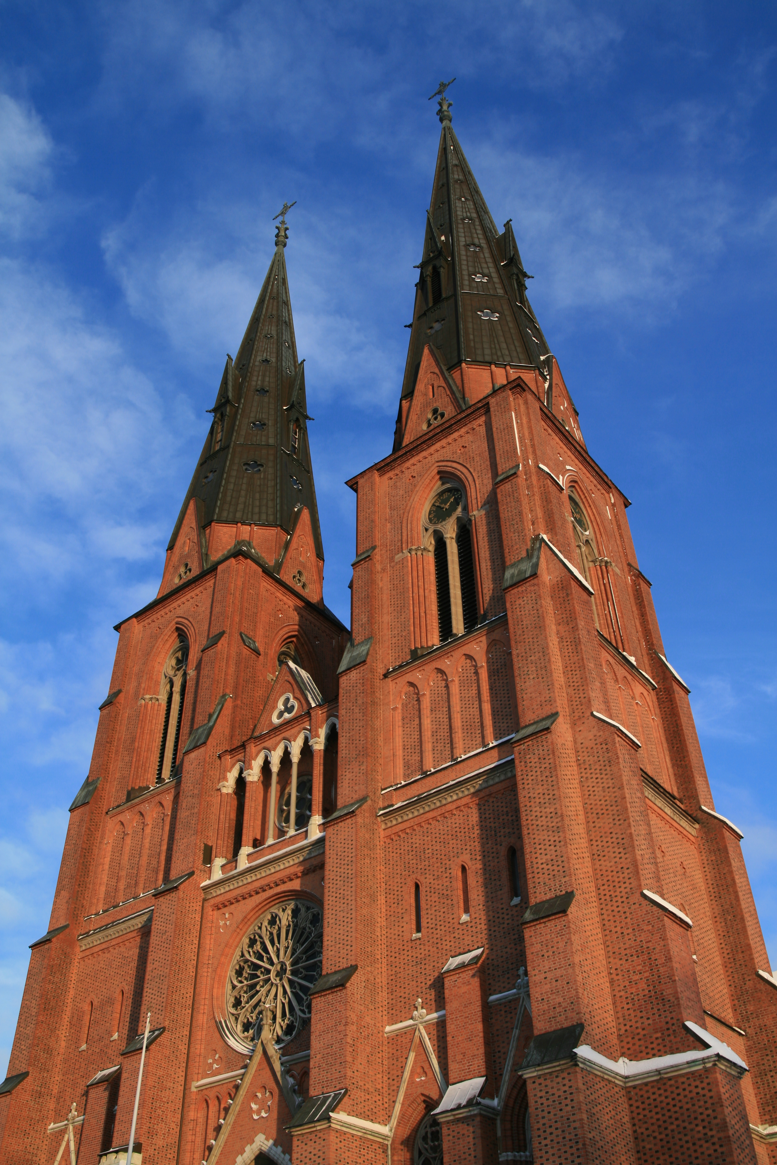 Kathedral in Uppsala, Sweden